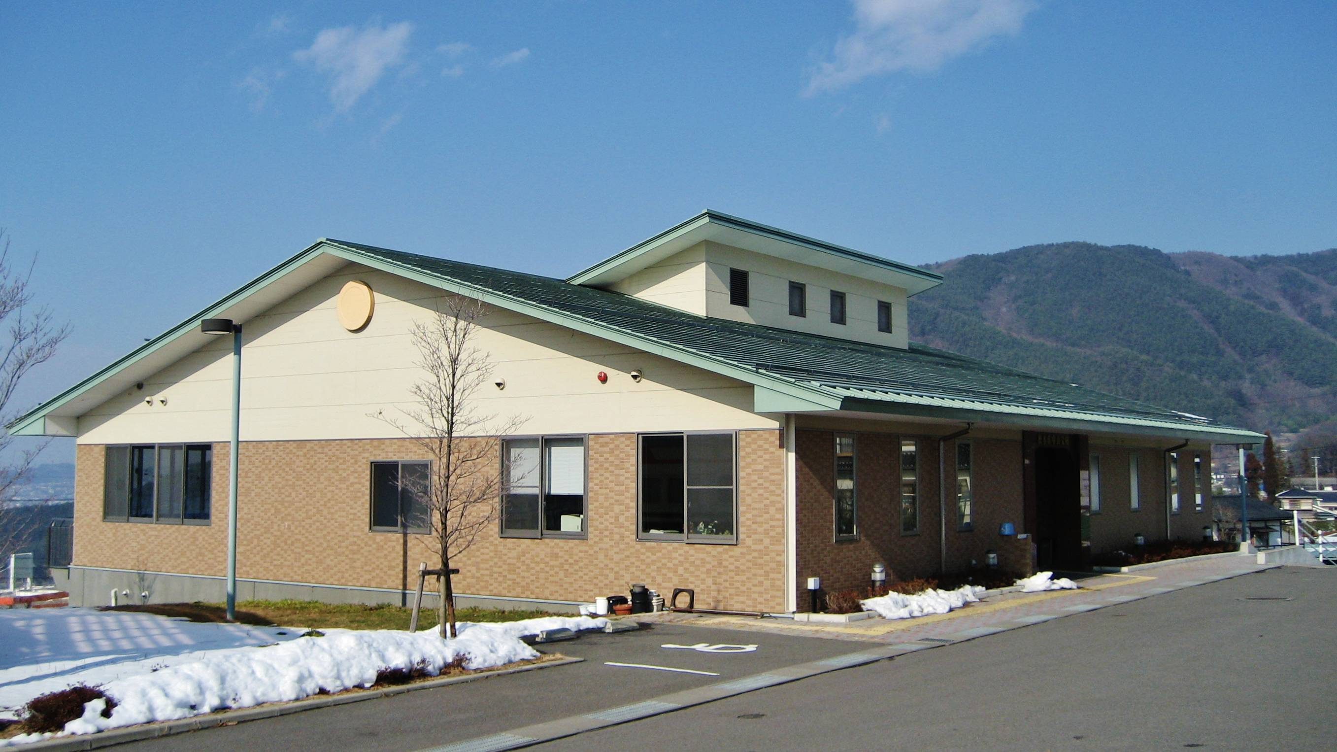 Matsumoto City Library Nakayama Bunko.